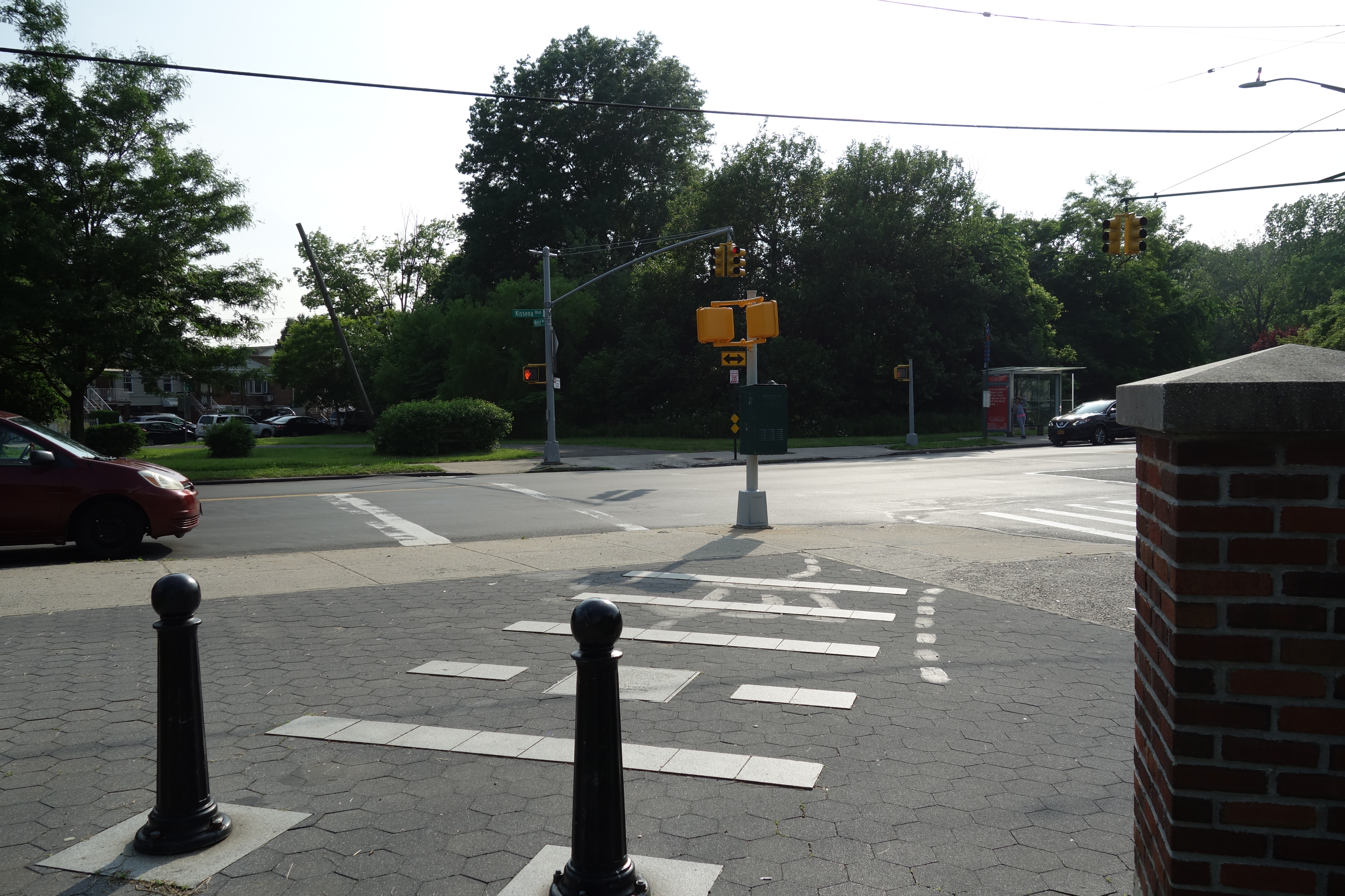 Looking west from entrance to Kissena Park towards the end of Kissena Corridor Park West, at Kissena Boulevard and Rose Avenue in Murray Hill / East Flushing, Queens. This was the location of the short-lived Kissena station of the Central Railroad of Long Island or the Stewart Railroad in the 1870s. The horizontal strips of paving stones represent railroad tracks and follow the former right-of-way east into the park, or in this case west out of the park.